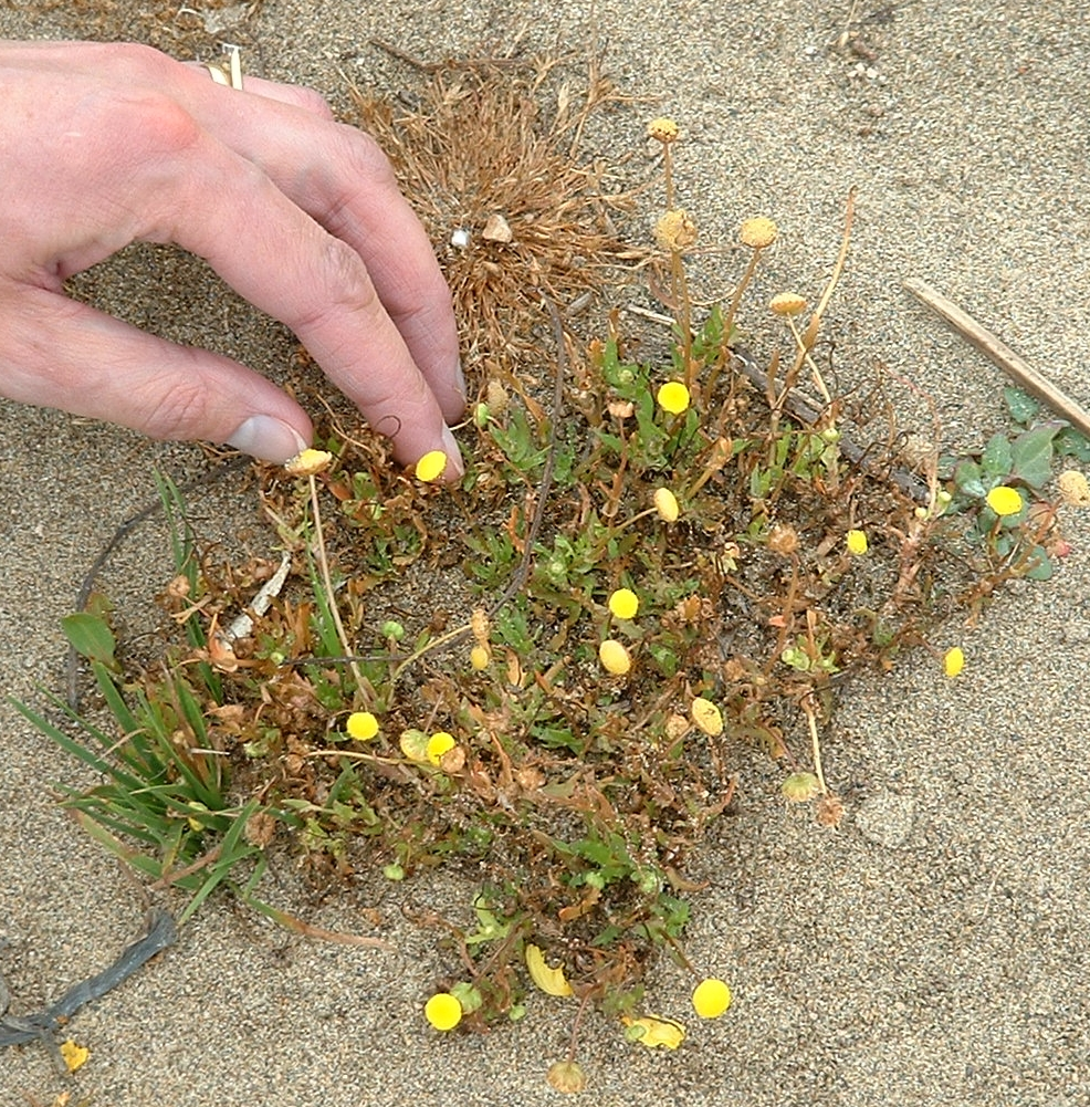 Brass buttons plant on the beach at Point Reyes National Seashore, California